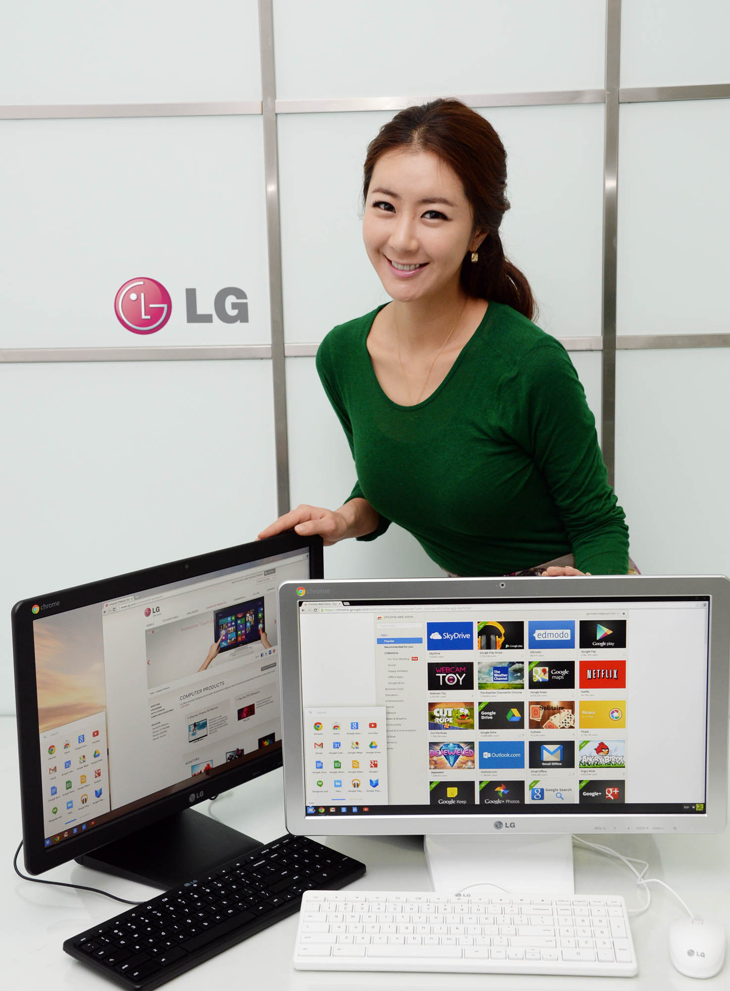 Model with Chromium OS Computer